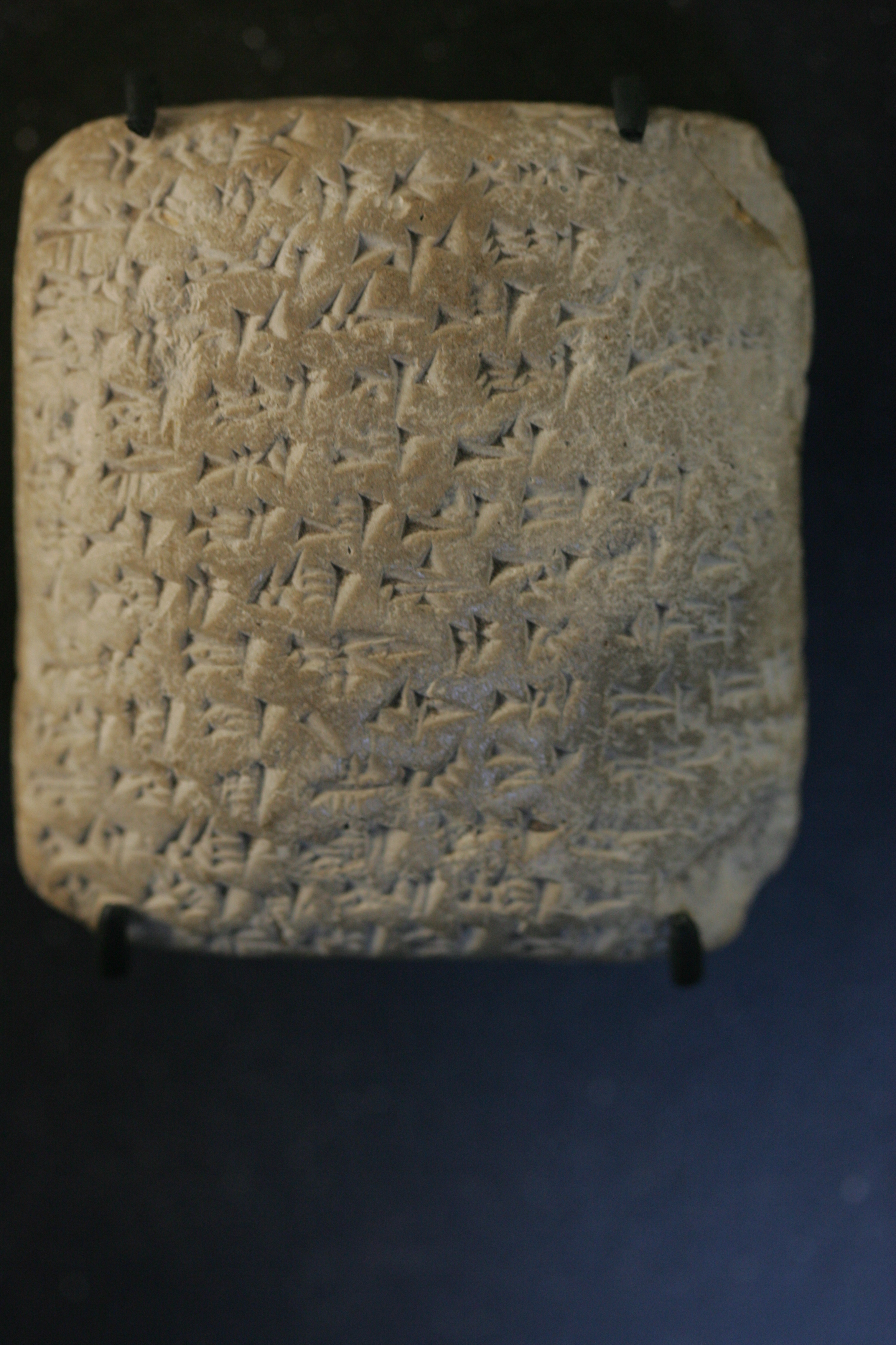 Amarna Letters Letter of Biridiya, prince of Megiddo, to the king of Egypt; subject of harvesting by corvee workers in the city of Nuribta. Terra cotta Current location (Inventory)Louvre Museum Native nameMusée du LouvreLocationParisCoordinates48° 51′ 37″ N, 2° 20′ 15″ E Established1793Website control : Q19675 VIAF: 257711507 ISNI: 0000 0001 2260 177X ULAN: 500125189 LCCN: n80020283 NLA: 35912436 WorldCat Sully, Rez-de-chaussée, Levant, Salle D, Vitrine 4 : L'âge du bronze récent 1550 - 1150 avant J.-C.Accession numberAO 7098. Also known as EA 365.Credit lineAcquired in 1918Referenceslouvre.frSource/PhotographerRama